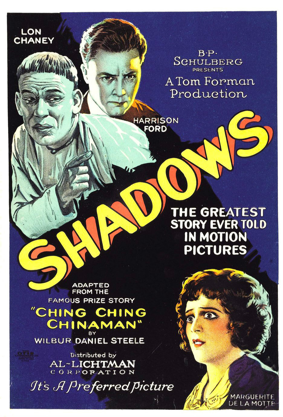 Poster for the 1922 film Shadows.